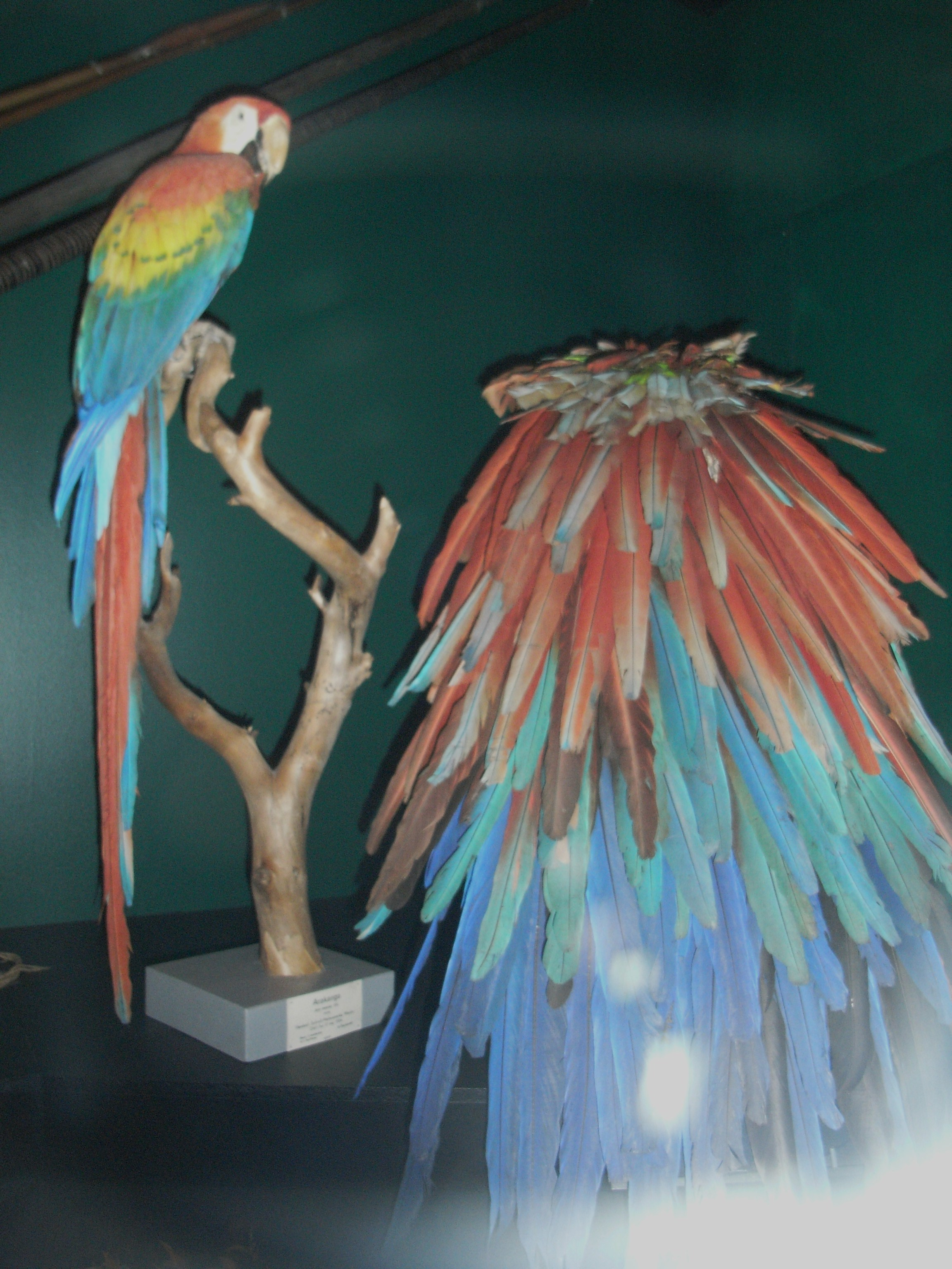 Ara macao in ethnographic museum en stockholm